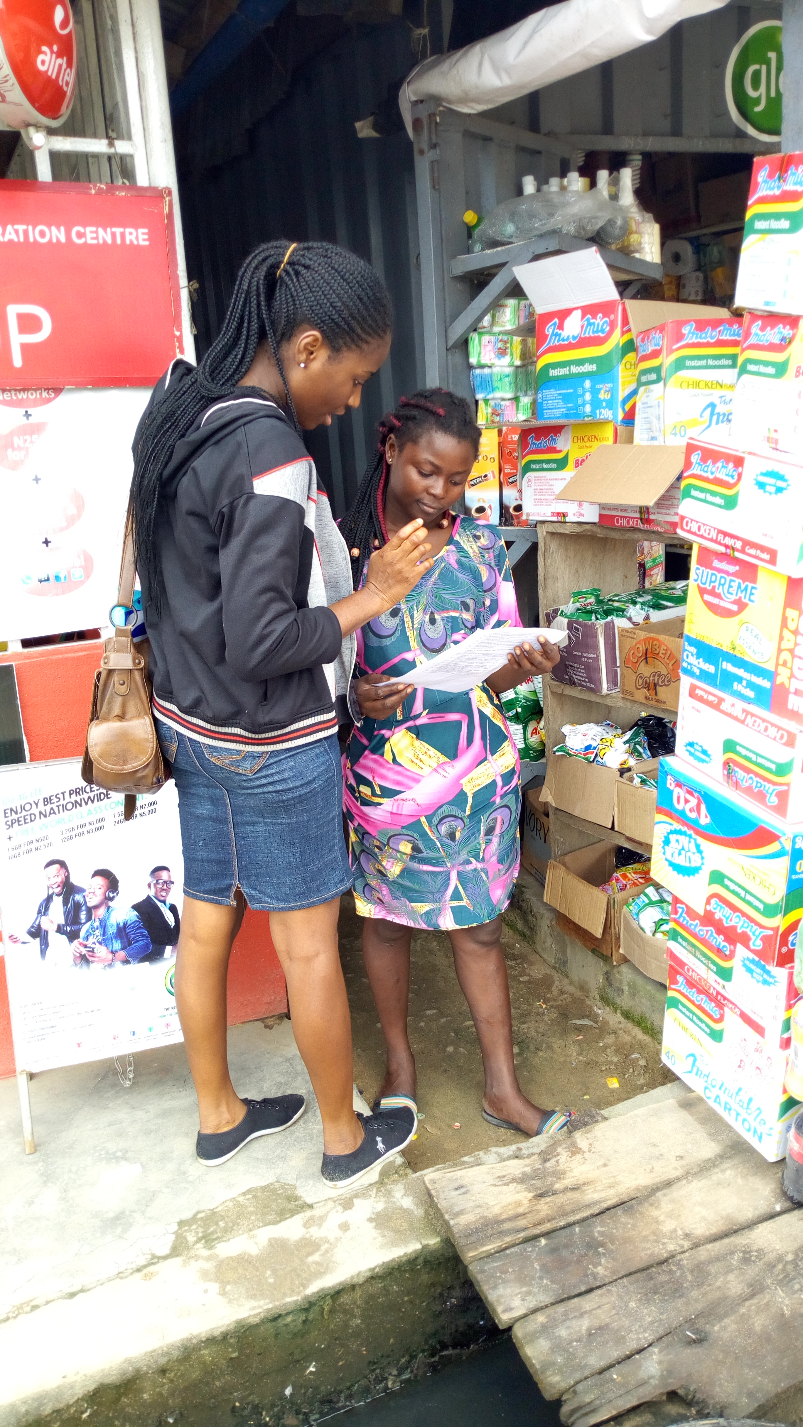 This photo was taken during my research field work on perception of youths on factors that contribute to high teenage pregnancy in Amassoma community,Bayelsa state,Nigeria. This is an image of "African people at work" from Nigeria